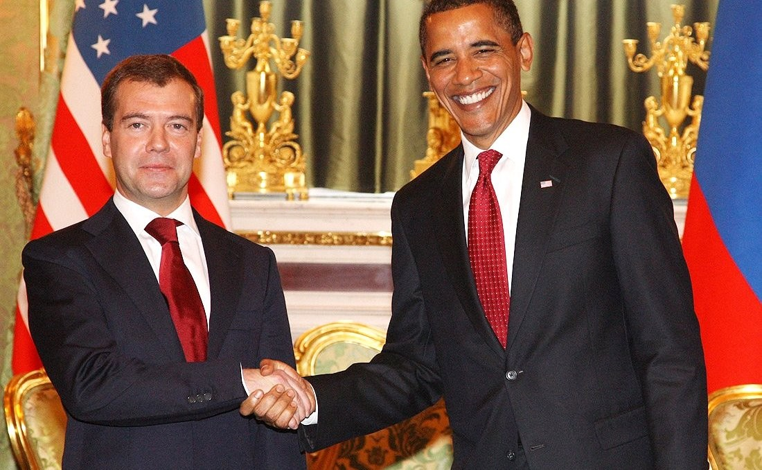 GRAND KREMLIN PALACE, MOSCOW. With President of the United States of America Barack Obama.